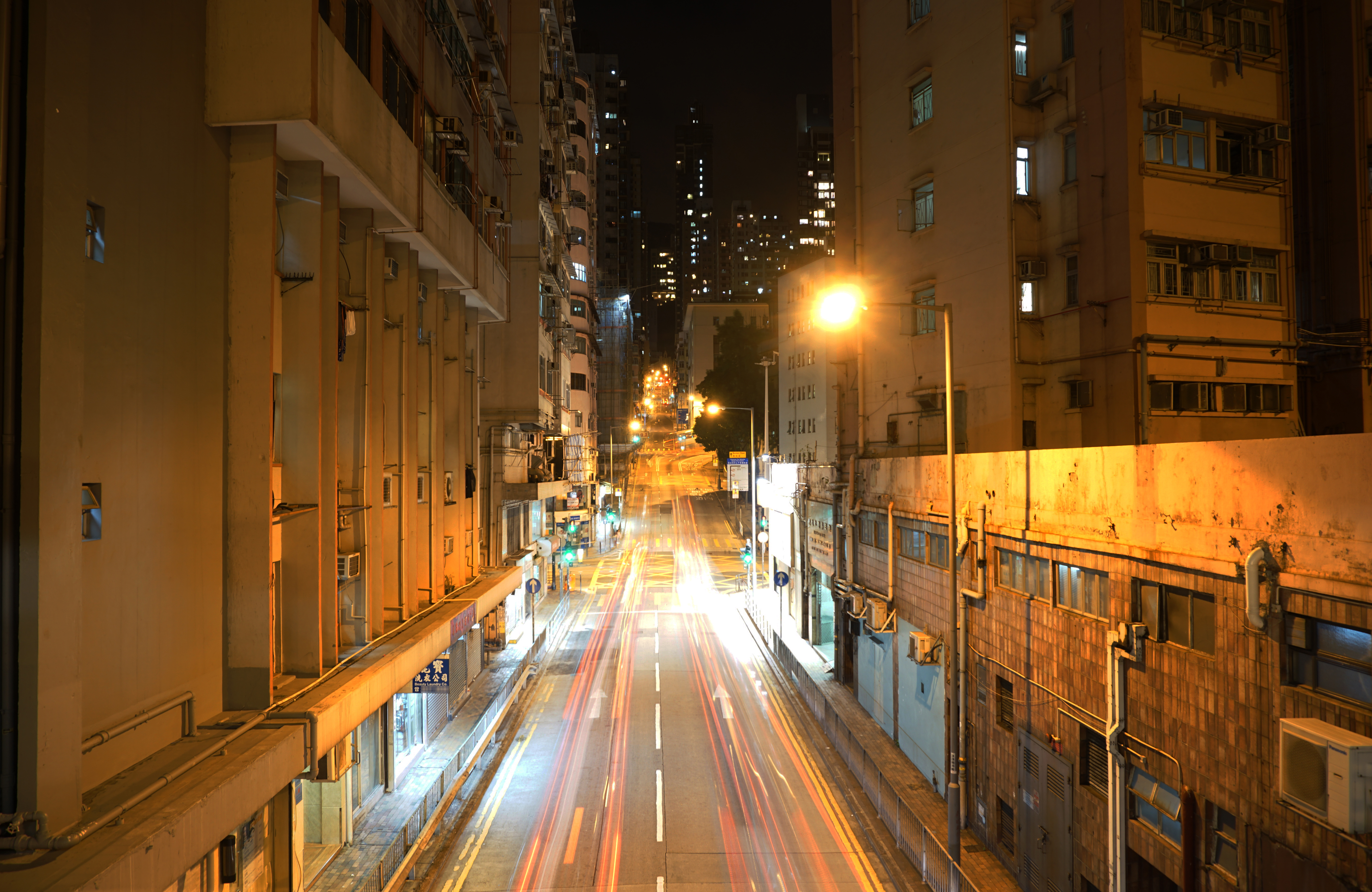 Western Street in Sai Ying Pun, Hong Kong.